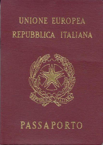 Cover of an Italian passaport issued in 2004.